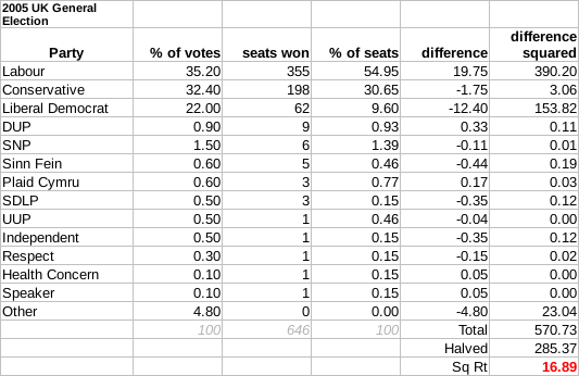 Gallagher Index, 2005 UK General Election